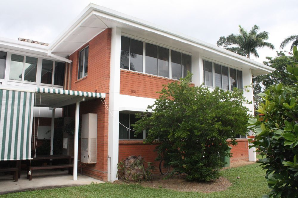 Meringa Sugar Experiment Station, 1969 Offices (2013)